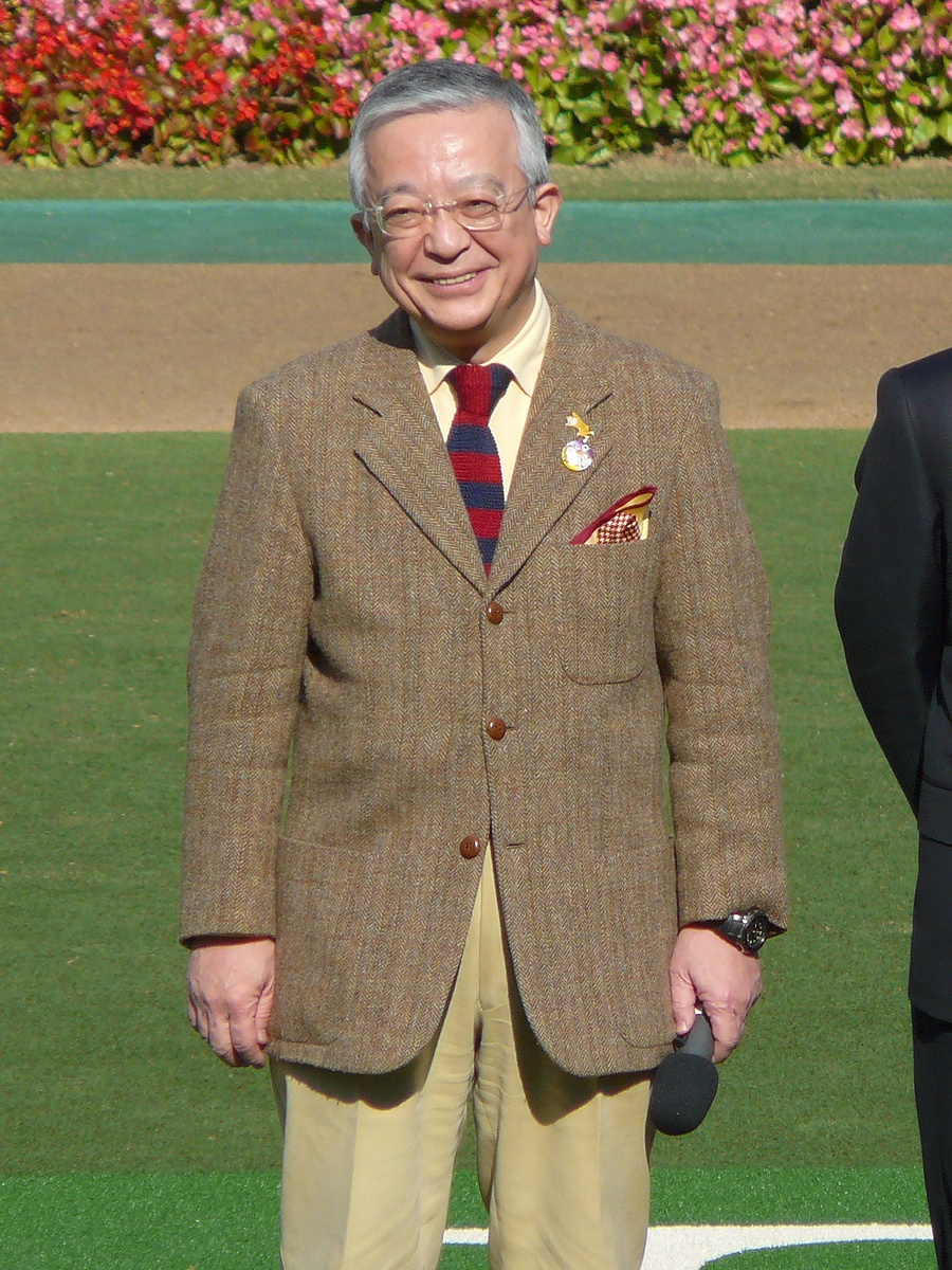 Syugoro-Isaki20101127